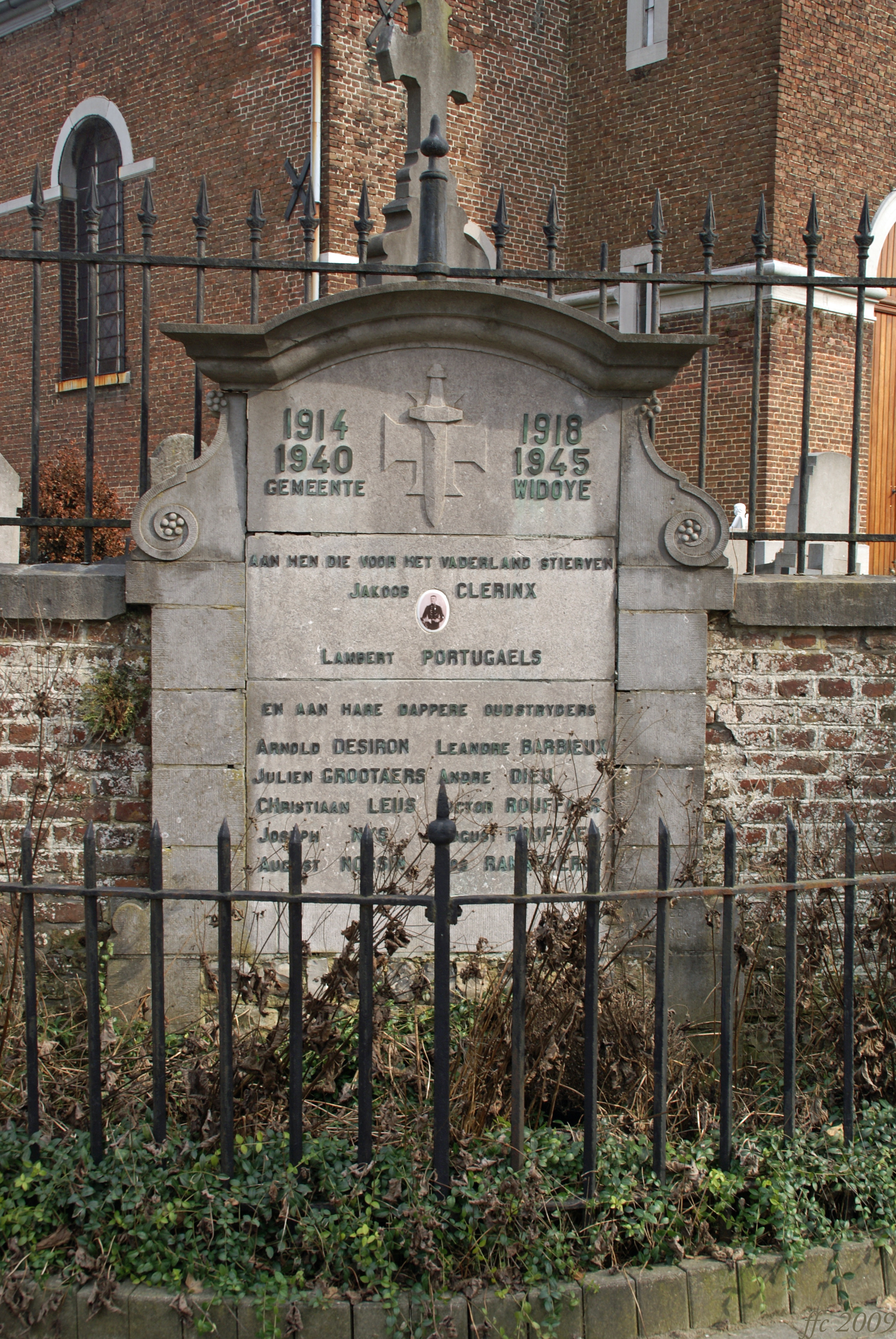 Widooie (Belgium): War Memorial